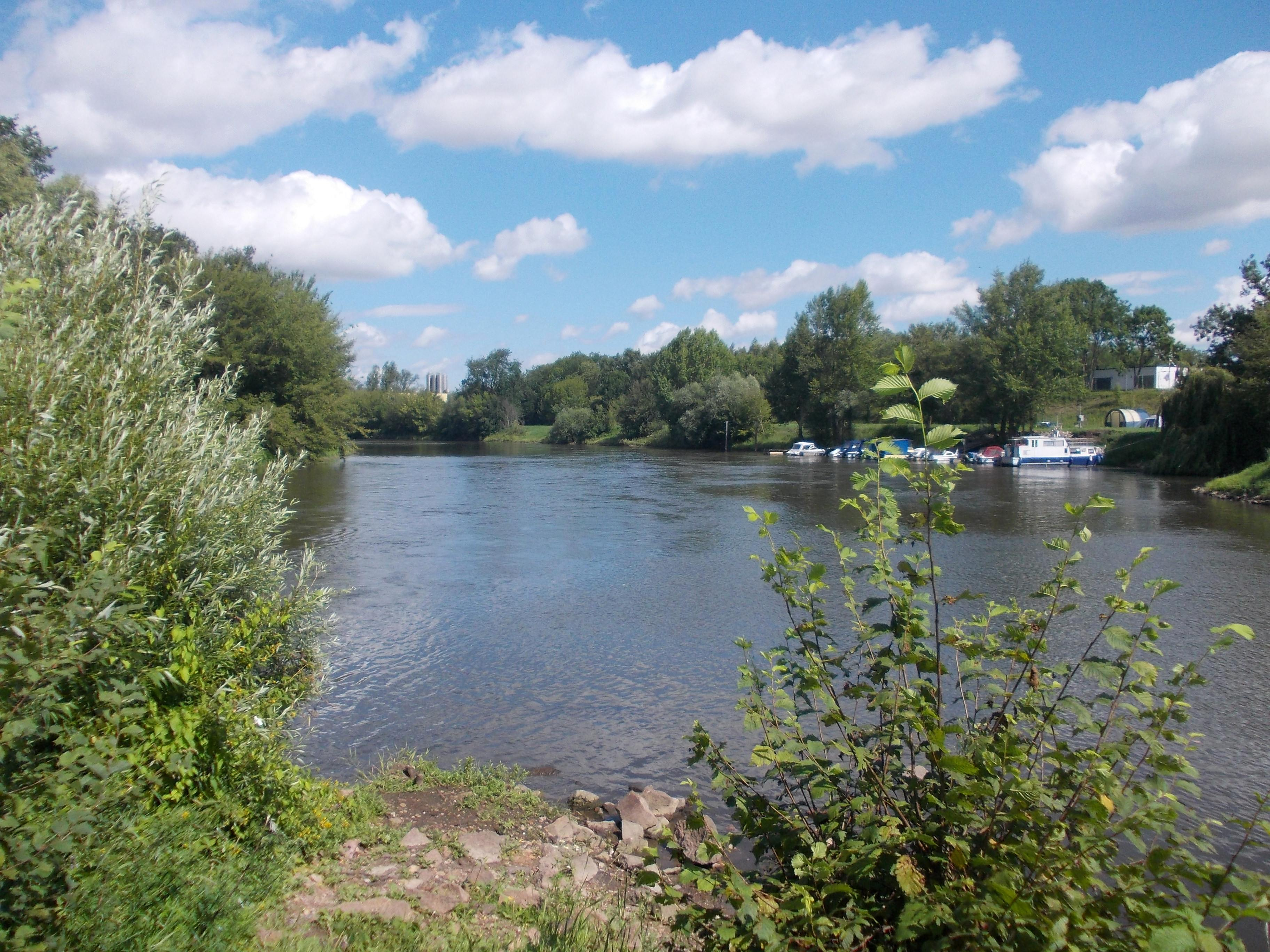 Saale river at Forstwerder island in Trotha (Halle/Saale, Saxony-Anhalt)